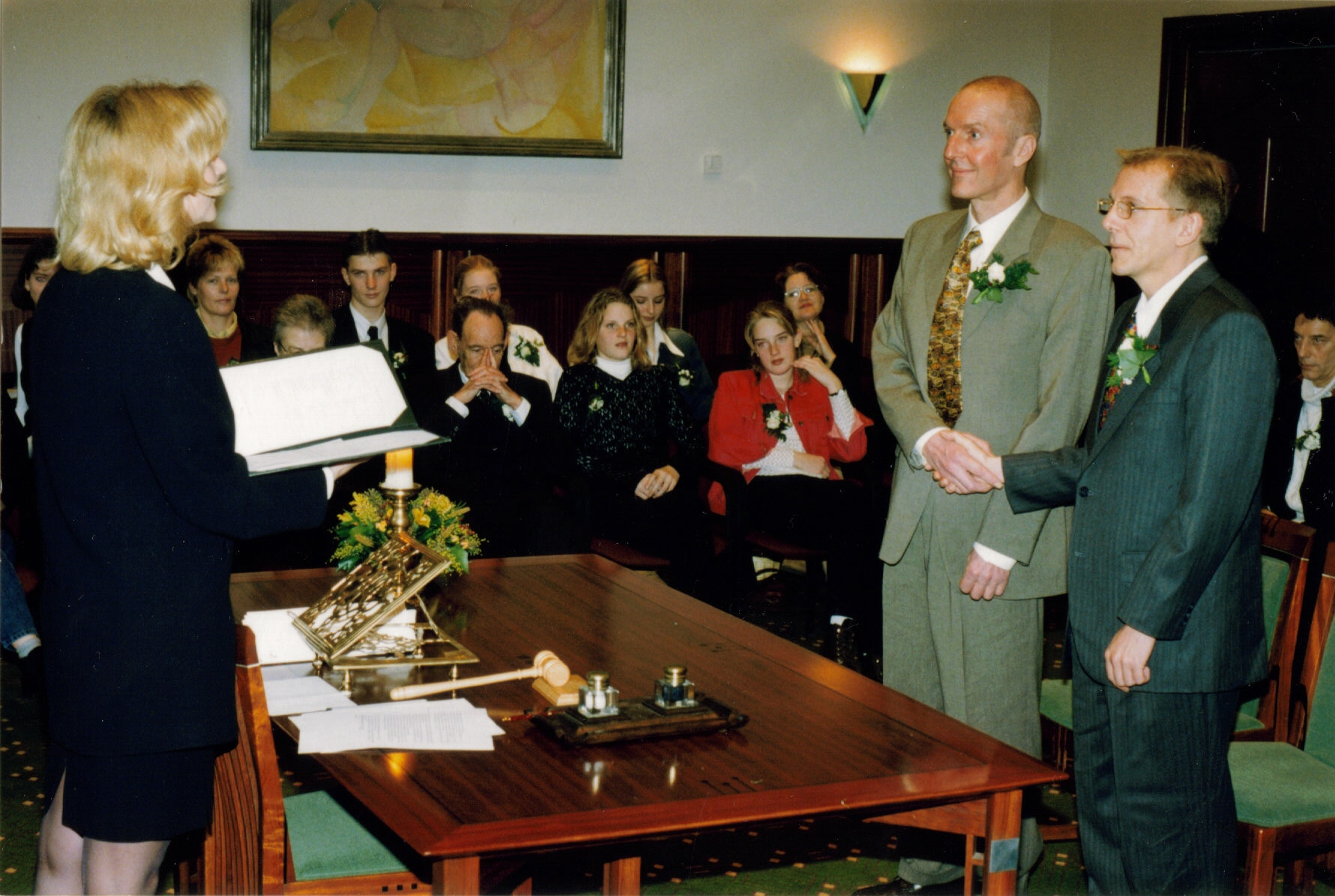 Photo of Jeffpw (on right) wedding ceremony in the Netherlands. Original text: Photo of my wedding ceremony in the Netherlands. My and my partner's gift to Wikipedia. Merry Christmas.